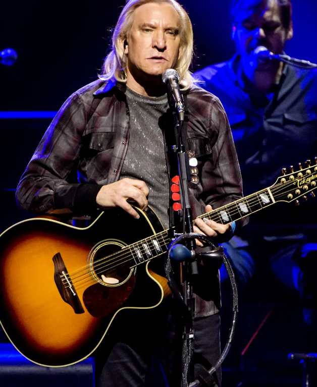 Joe Walsh in concert